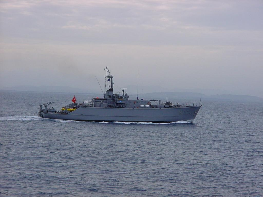 TCG Erdemli (M-264)